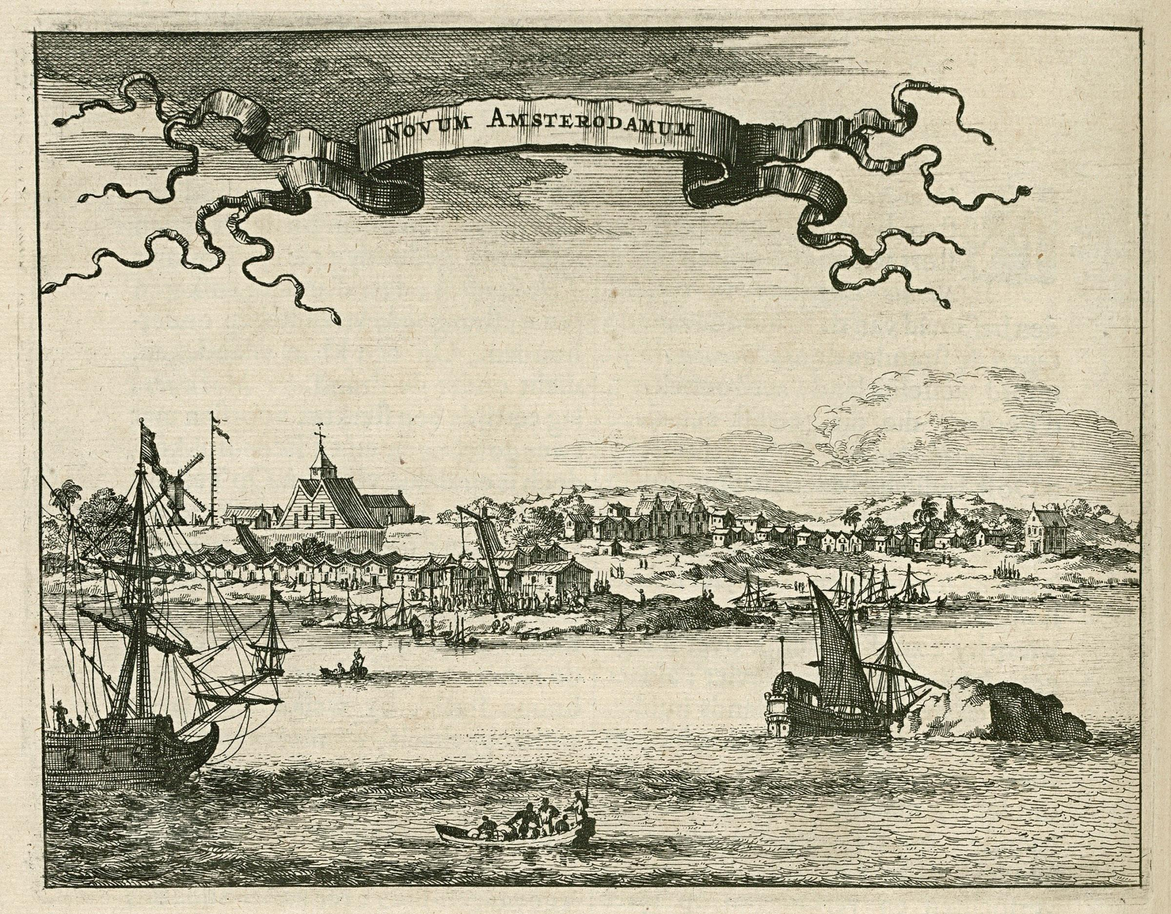 View of Nieuw Amsterdam. Novum Amsterodamum. In the centre of the picture a man is depicted hanging by his middle. This activity is comparable to the punishment meted out to runaway or recalcitrant slaves in South America (Surinam). The slave being punished was suspended by a hook in his ribs and swung to and fro. This so-called 'hook swinging' was also practiced in India.